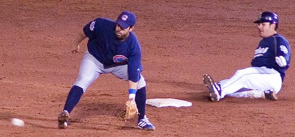 Image of a player sliding into second base during a Padres-Cubs exhibition game in Las Vegas on March 31, 2006.